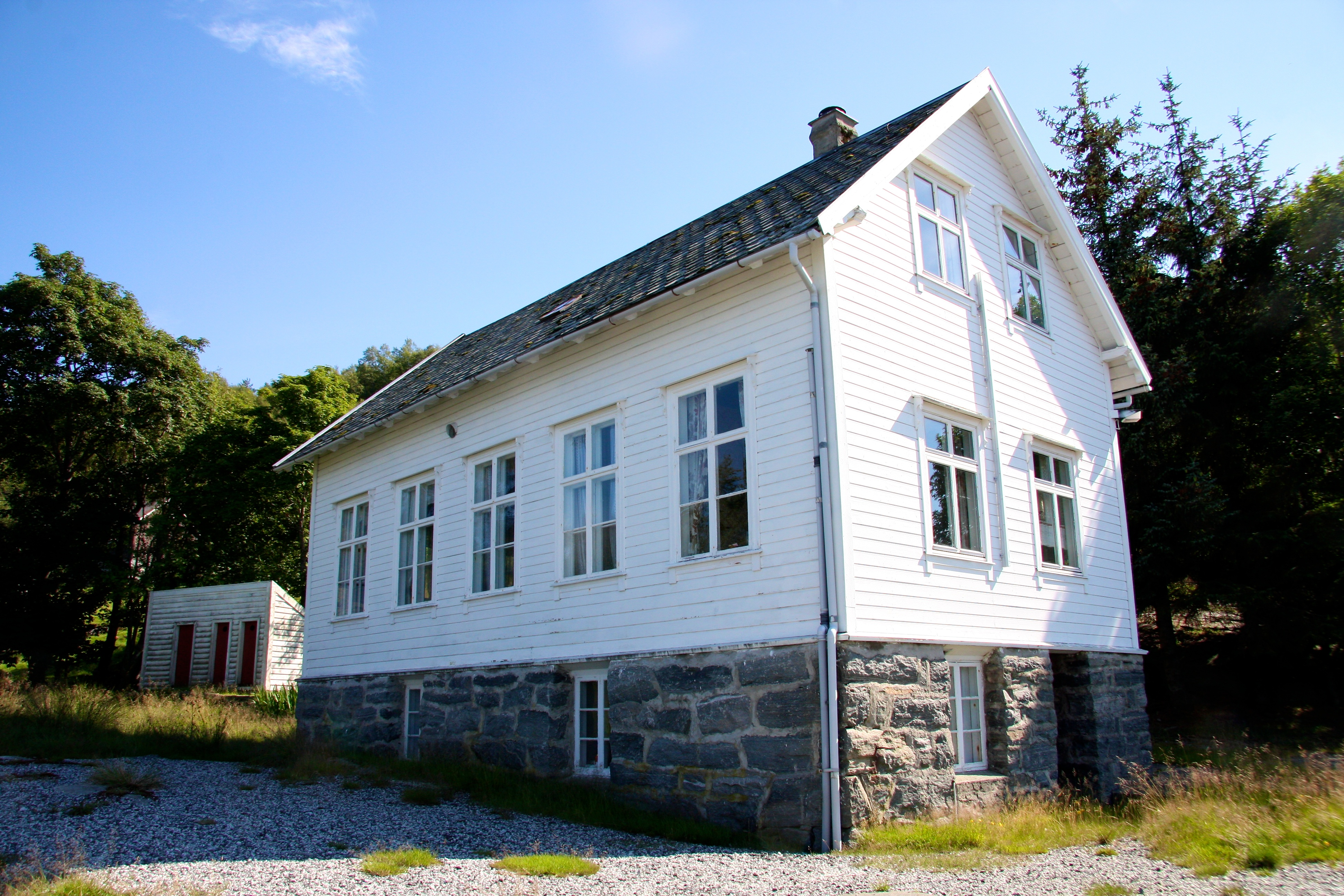 Sygnefest in Gulen municipality, Norway.